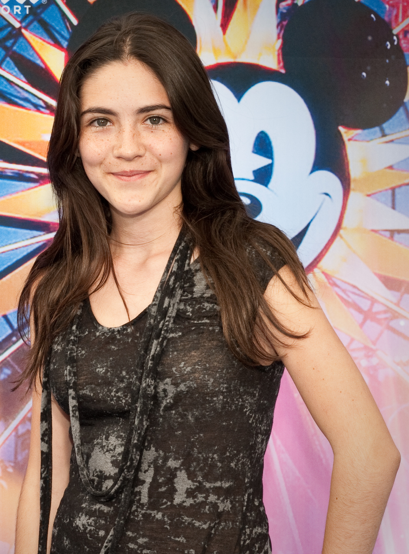 Isabelle Fuhrman at the World of Color Premiere Disney California Adventure